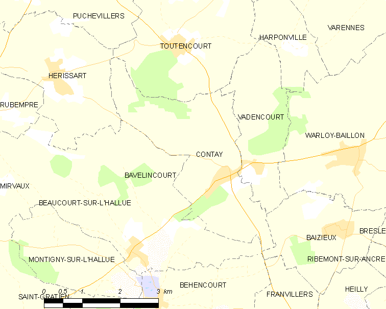 Map of French municipality Contay